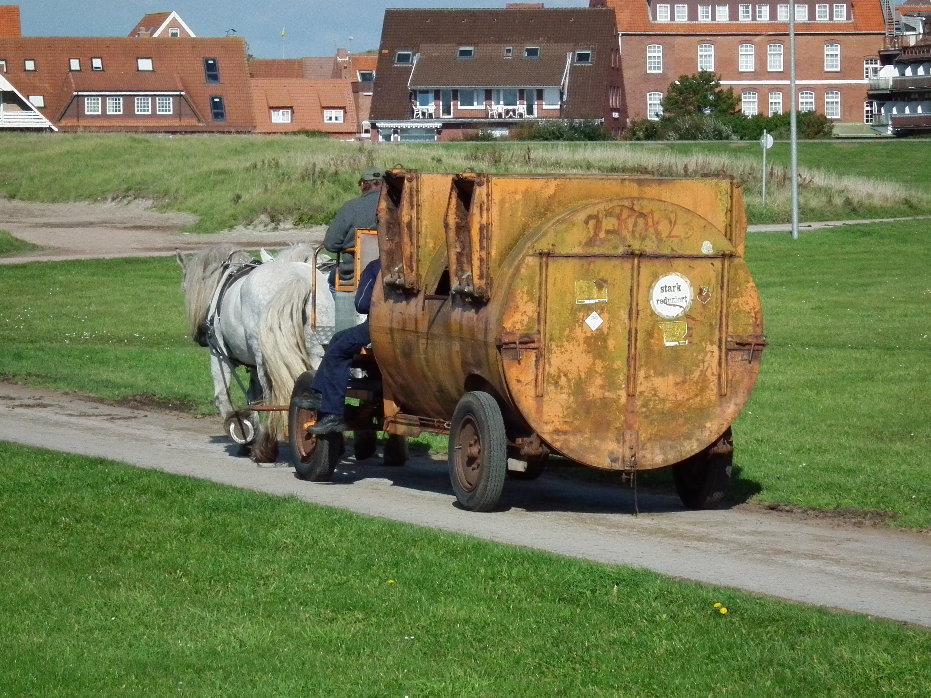 Percheron horses pull a garbage truck, photographed on the East Frisian North Sea island of Juist (Lower Saxony, Germany